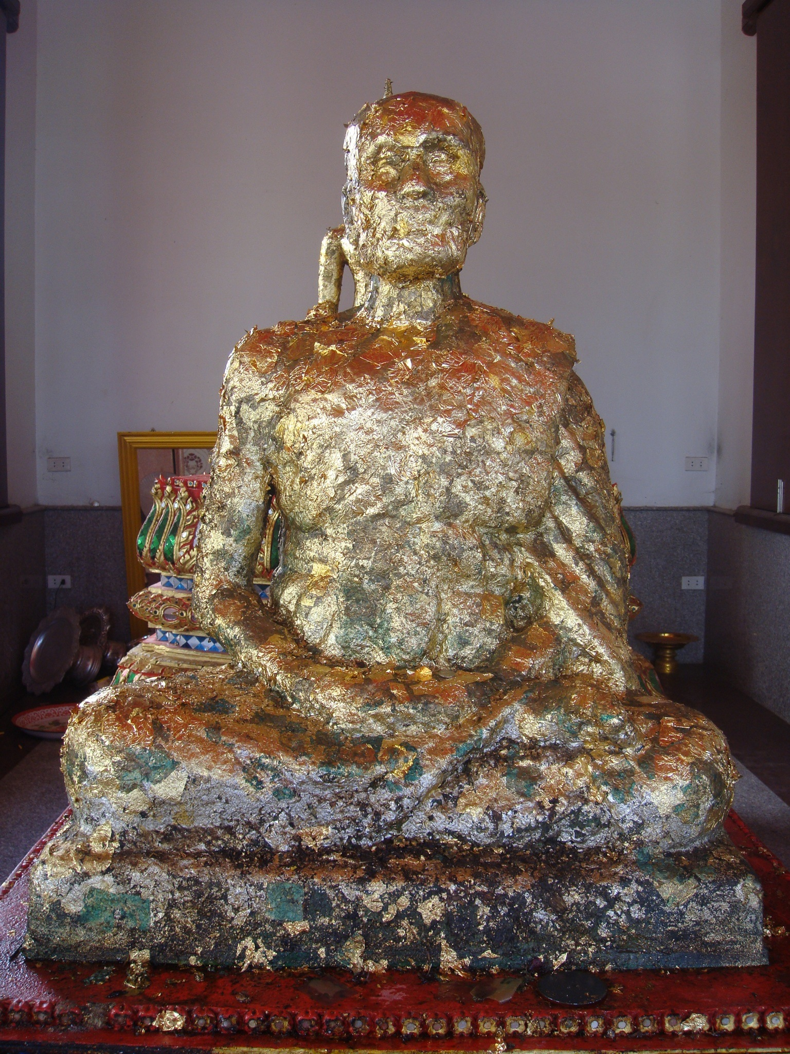 รูปหล่อพระครูญาณสาคร